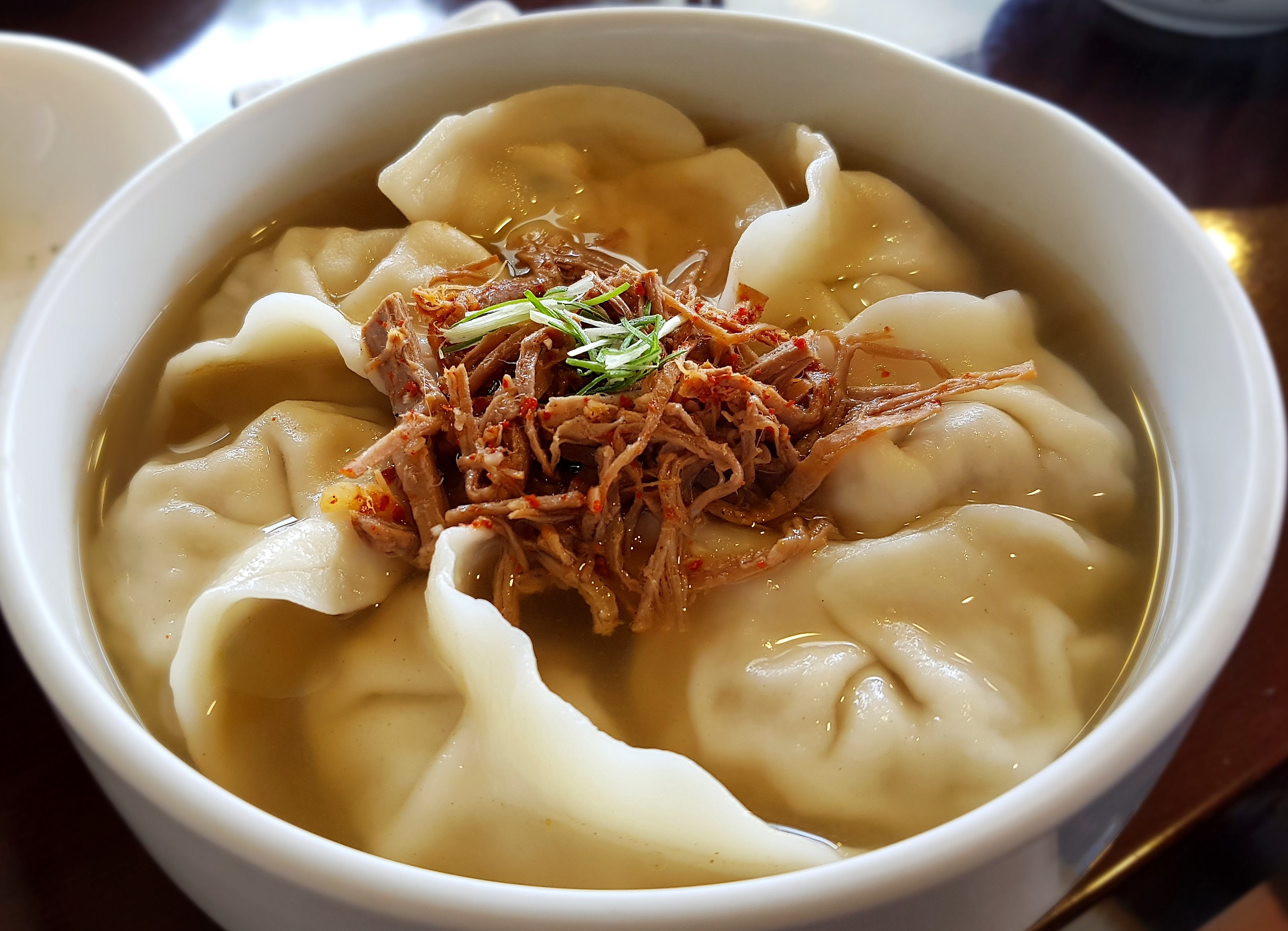 Korean Food Manduguk, in Jongno-gu Buam-dong